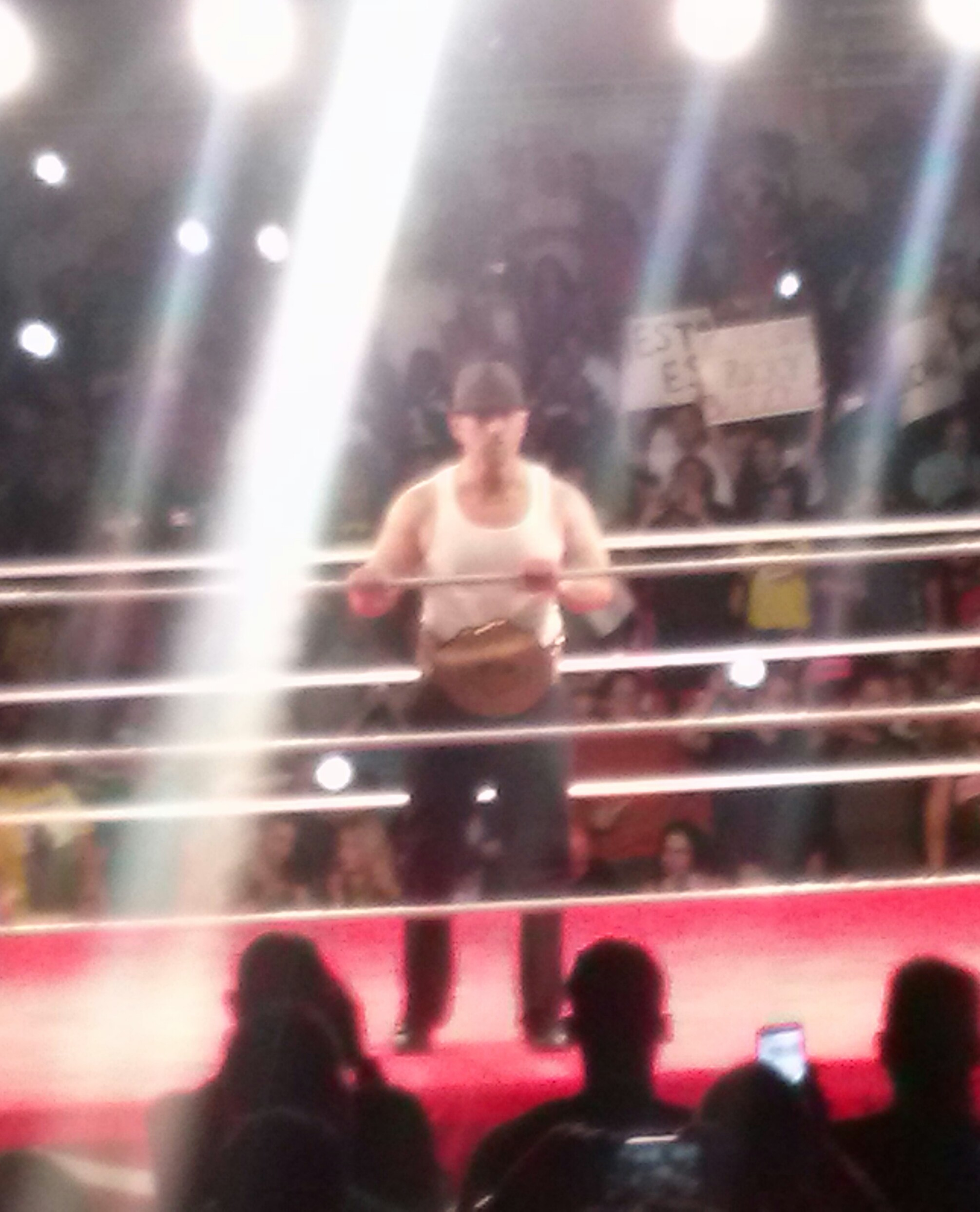 Shane Sewell WWL Champ